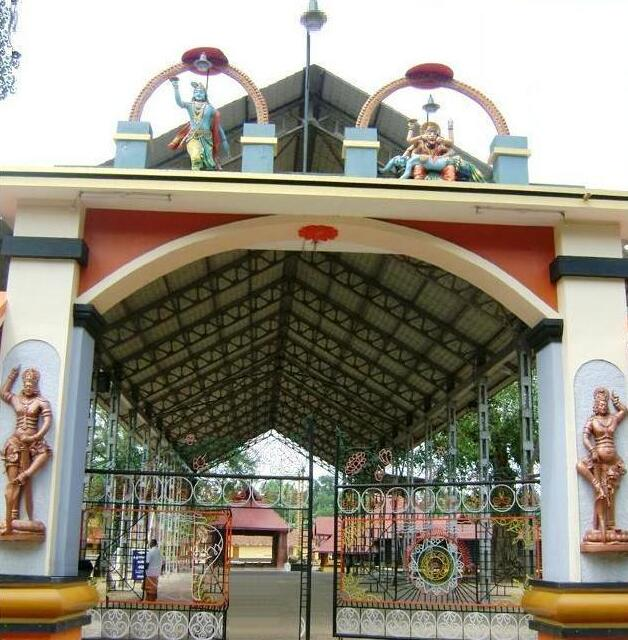 Thuravoor Maha Temple Tower